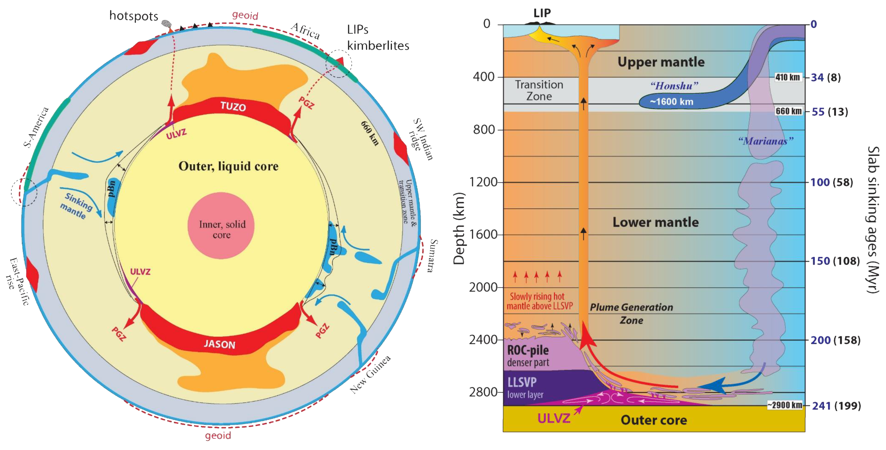 A cartoon illustrating the conceptual model of the "Burkian Earth" (named after after Kevin C. A. Burke). The Burkian Earth is a degree-2 planet with two stable antipodal thermo-chemical piles in the lowermost mantle (aka. Large Low Shear-wave Velocity Provinces, LLSVPs, or simply "TUZO" and "JASON"). Large Igneous Provinces (LIPs), kimberlites, and active hotspots are sourced by deep plumes rising from the Plume Generation Zones (PGZs) at the margins of TUZO and JASON. Convection in the lower mantle is dominated by nearly vertically sinking slabs and ascending mantle plumes.